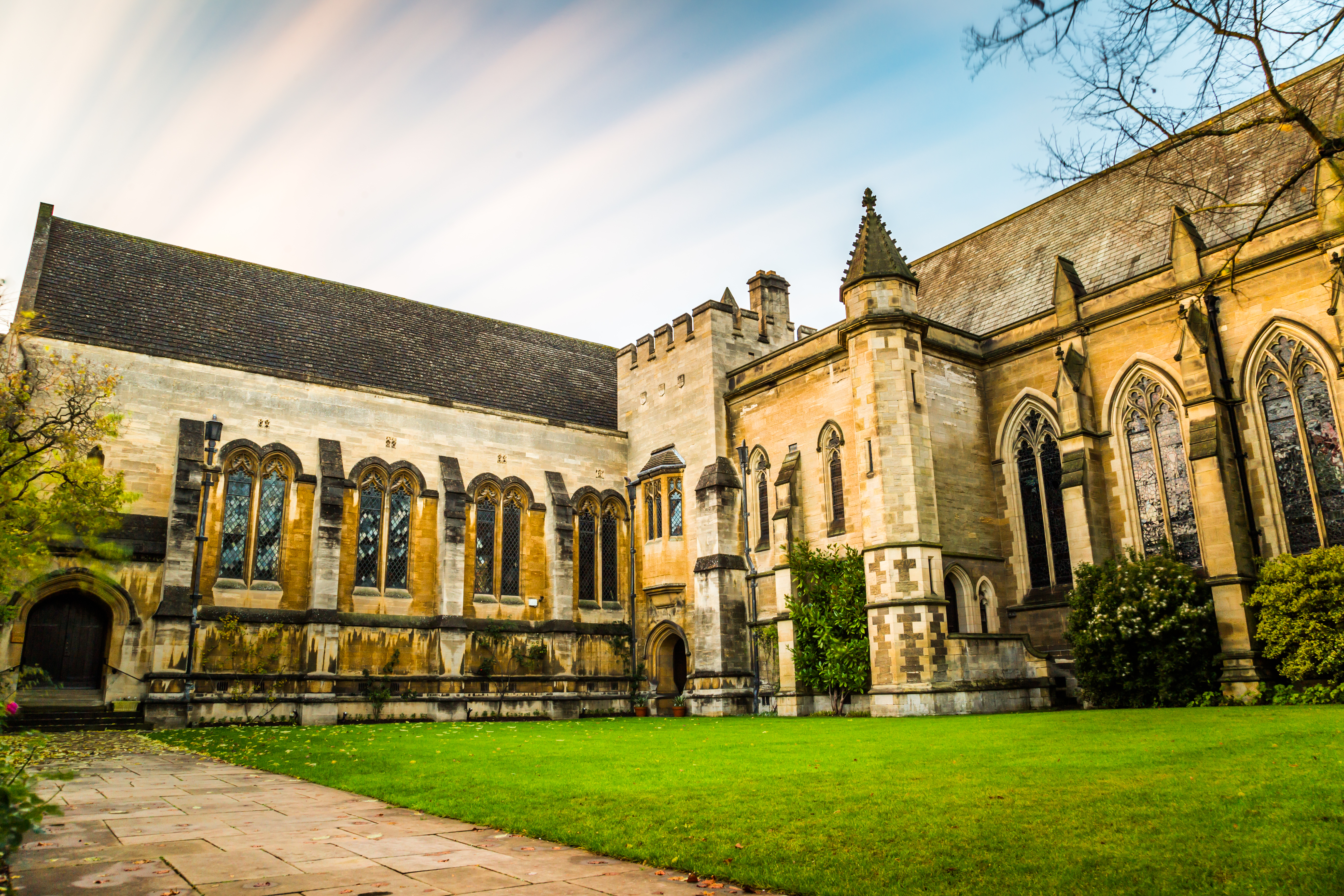 Manchester College, Screen On The South Side Of Chapel Court Wikidata has entry Q26298805 with data related to this item.